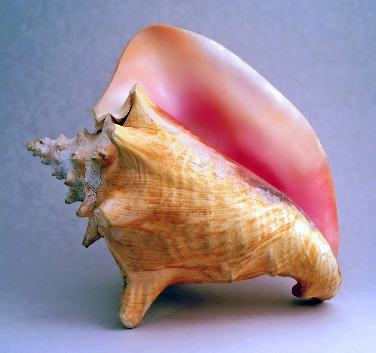 Shell of Eustrombus gigas.